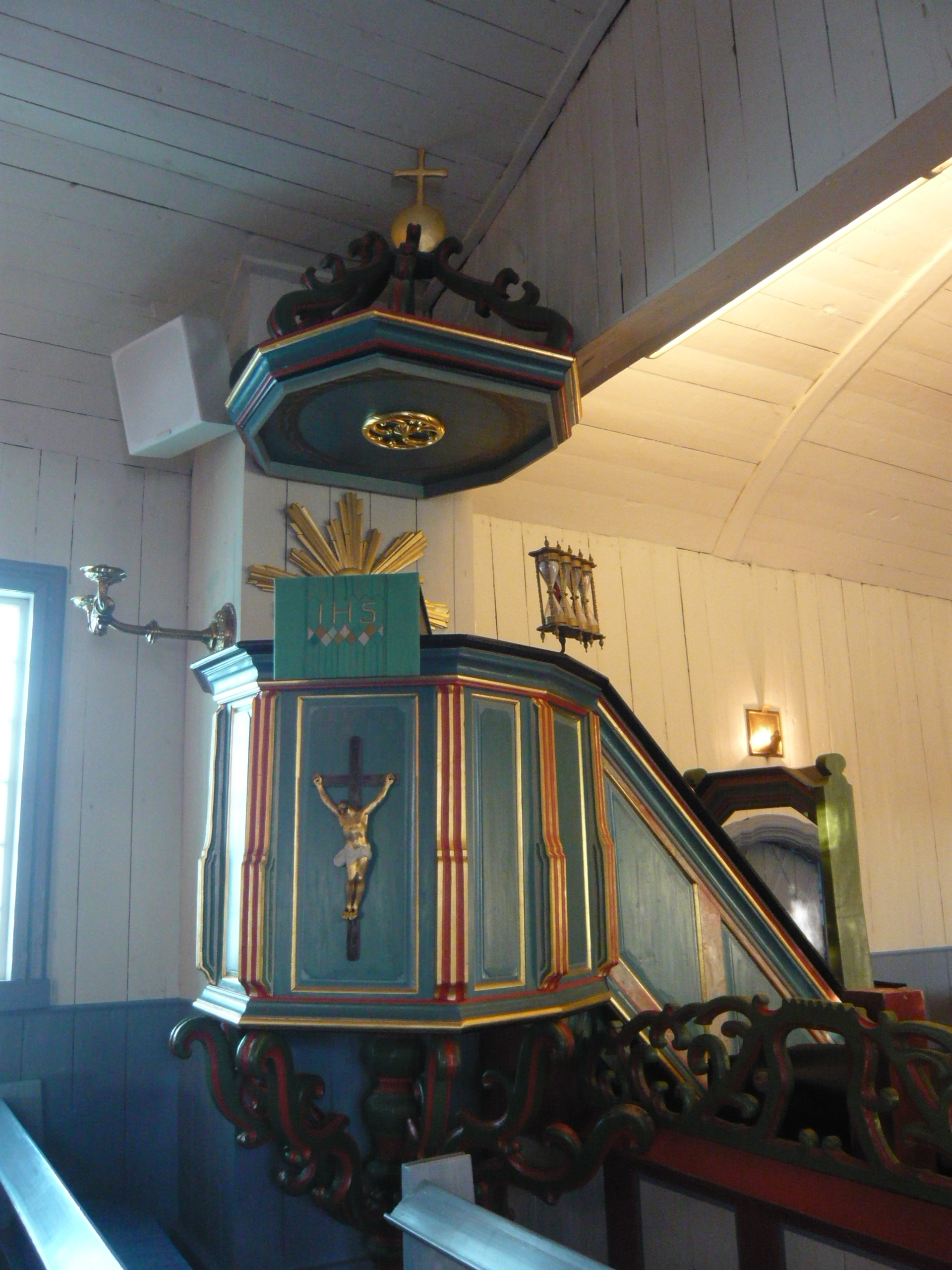 Interior of the church in Jukkasjärvi